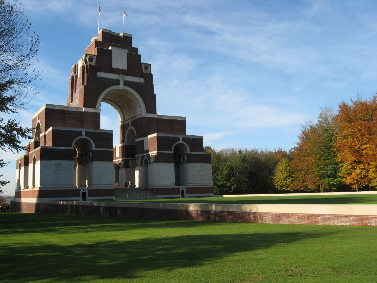 Thiepval (Somme, France)